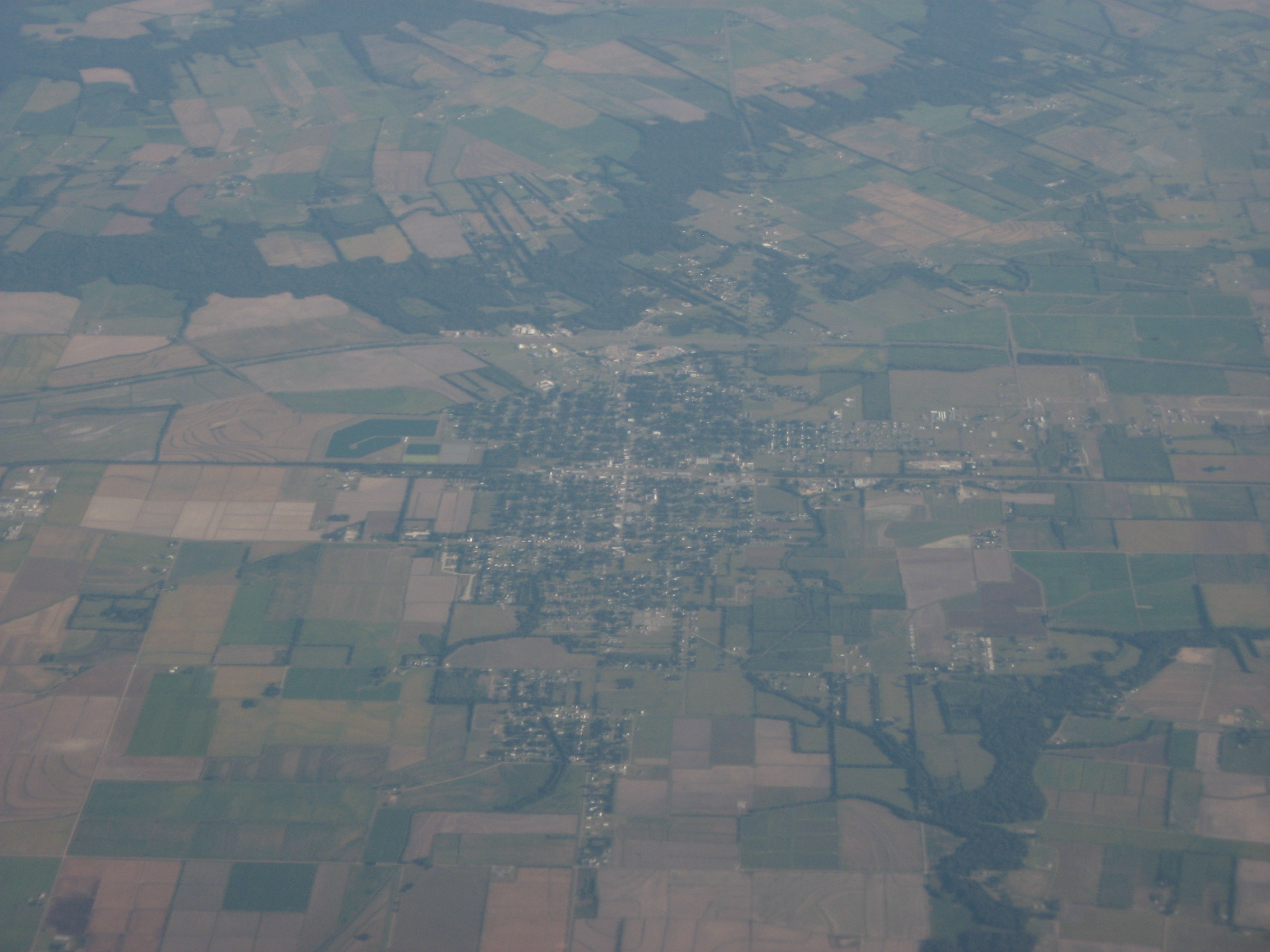 Rayne is a city in Acadia Parish, Louisiana, United States. The population was 7,953 at the 2010 census, down from 8,552 at the 2000 census. It is nicknamed the "Frog Capital of the World", as well as the "Louisiana City of Murals".